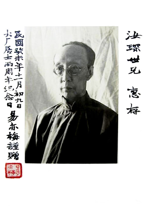 Yi Dachang